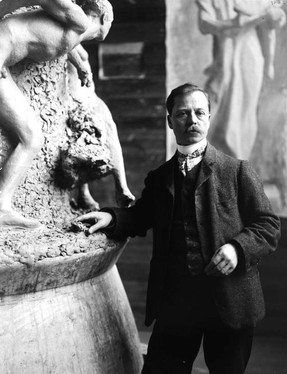 Swedish artist and sculptor Christian Eriksson (1858-1935)